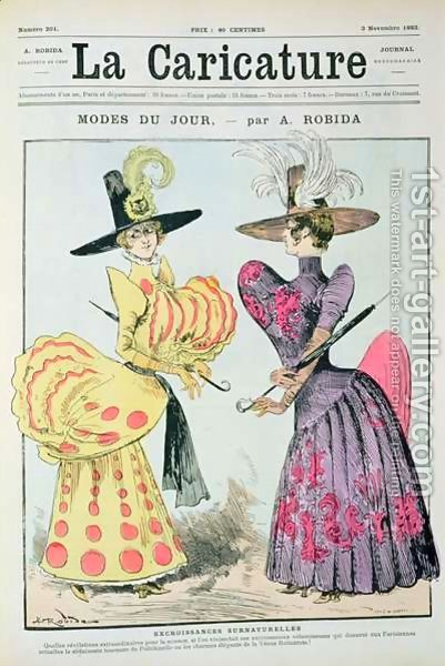 The Fashions of the Day by Albert Robida on the front page of La Caricature, 3 November 1883